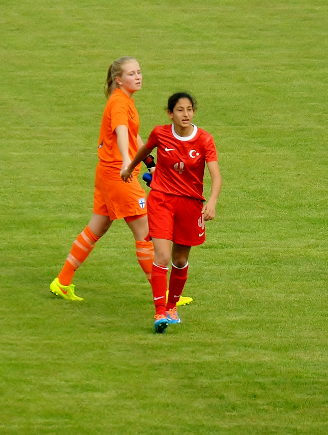 Damla Bozyel in the Turkey women's national under-17 football team at UEFA Women's Under-17 Championship qualification Elite round match against Finland